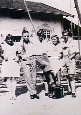 Ivor Hele, friend named Bert, German male in lederhosen and two unidentified females. Photographed in Bavaria c. 1928